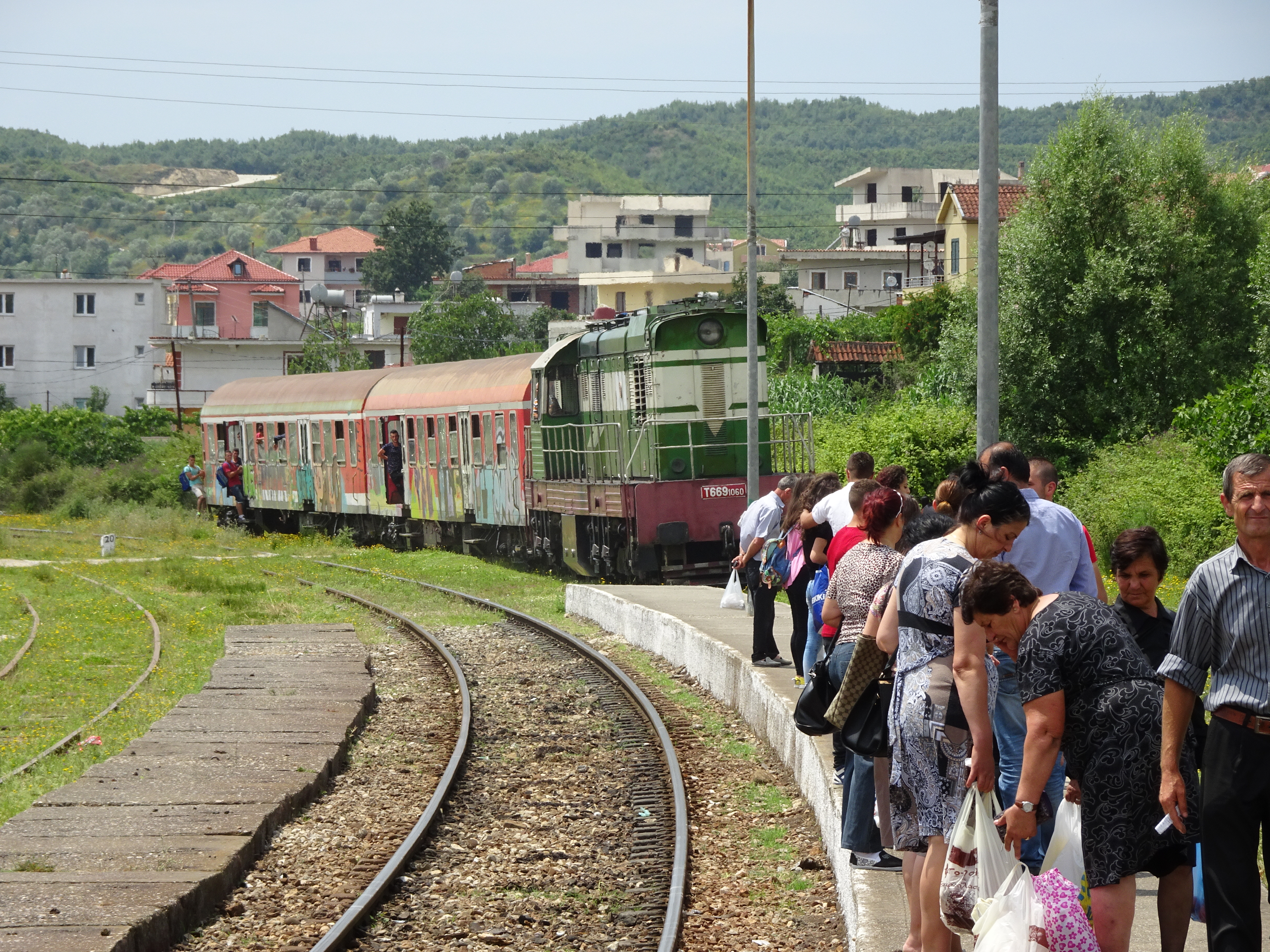 incoming train in vora albania. Line from Vora to Shodra.